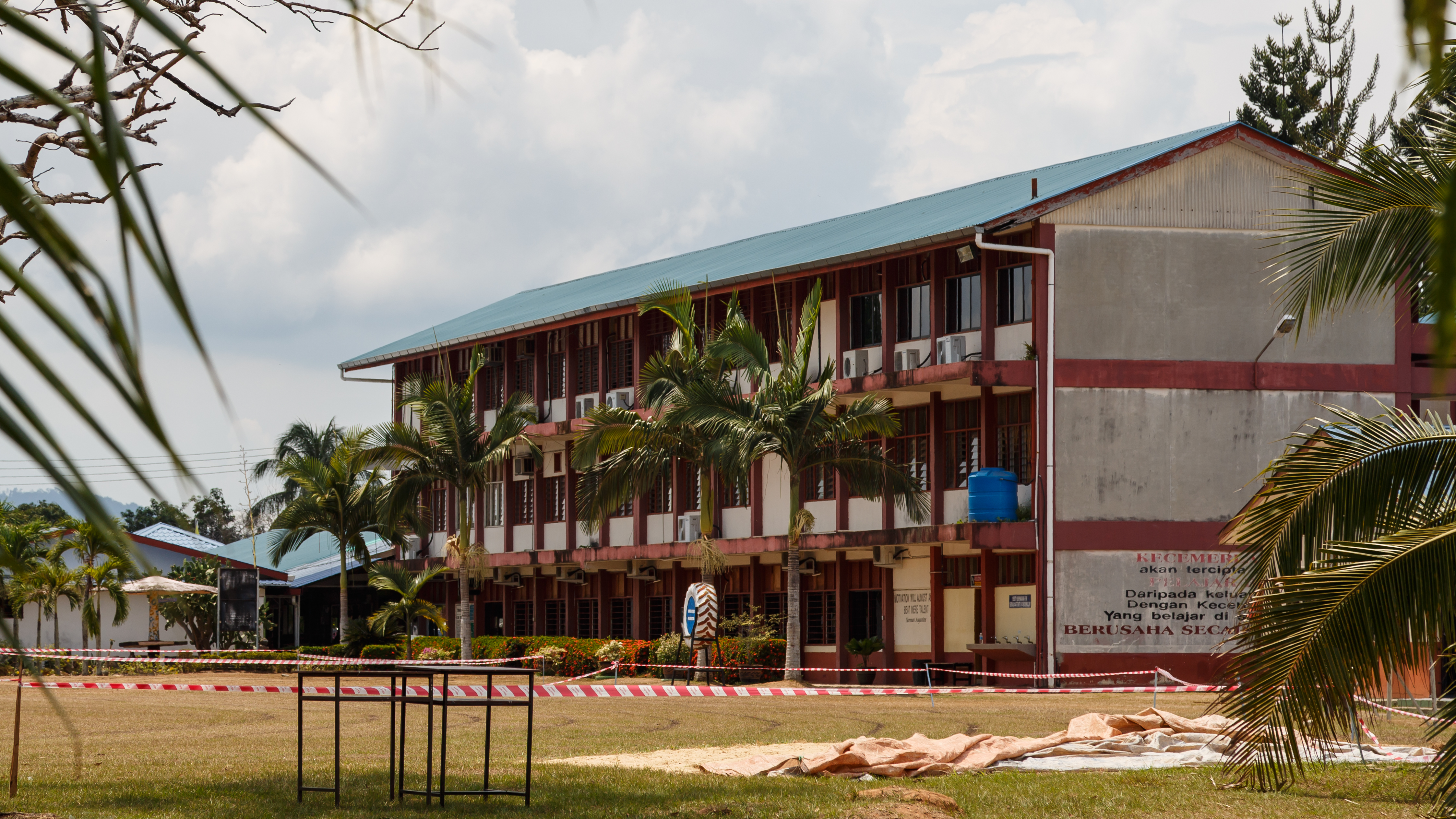 Tawau, Sabah: SMK Tawau (Sekolah Menengah Kebangsaan Tawau), a secondary school.